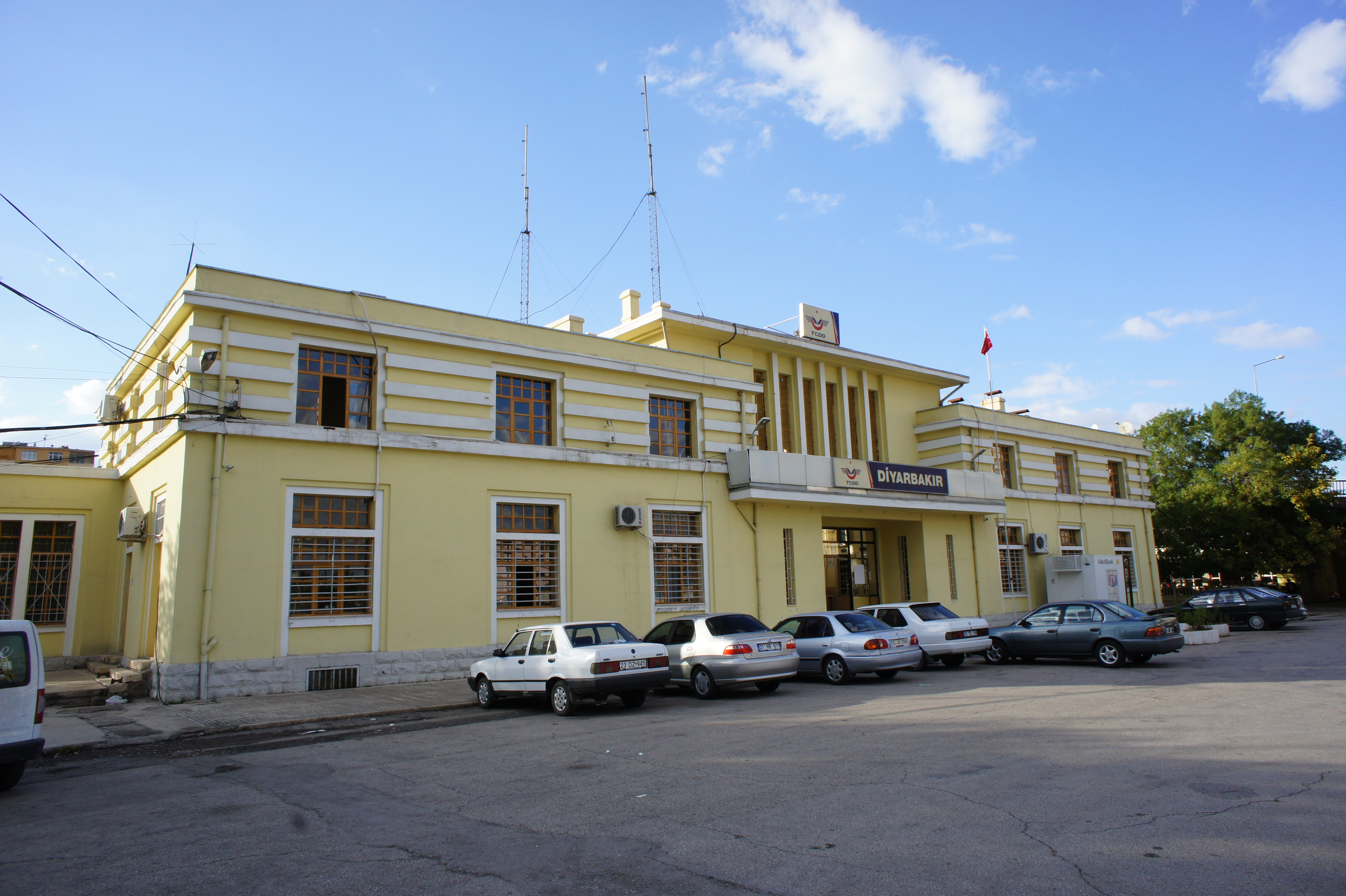 Diyarbakır (Amed) train station. Kurdî: Îstgeha trenan, Amed.